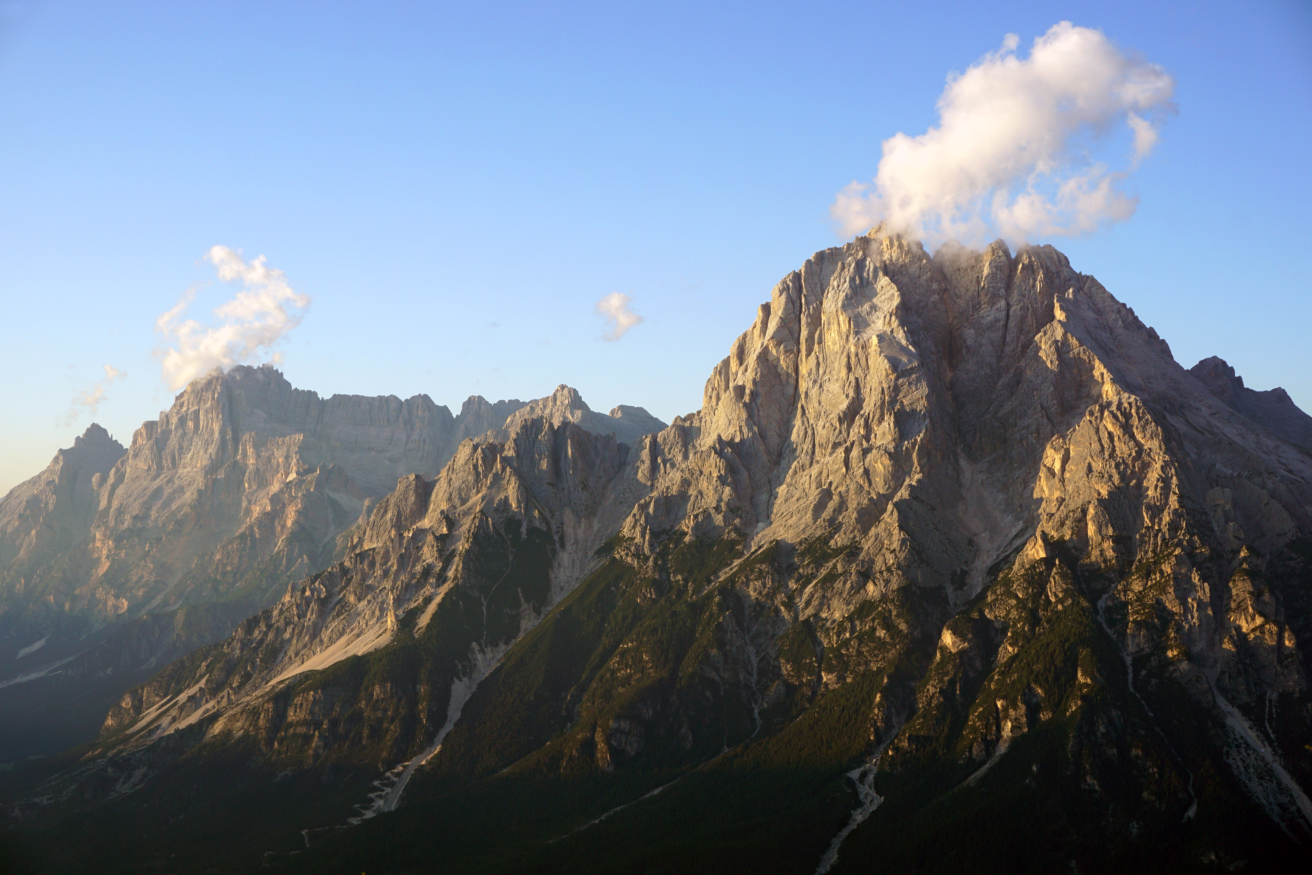 Monte Antelao seen from Monte Rite, near Messner Mountain Museum, Dolomites.